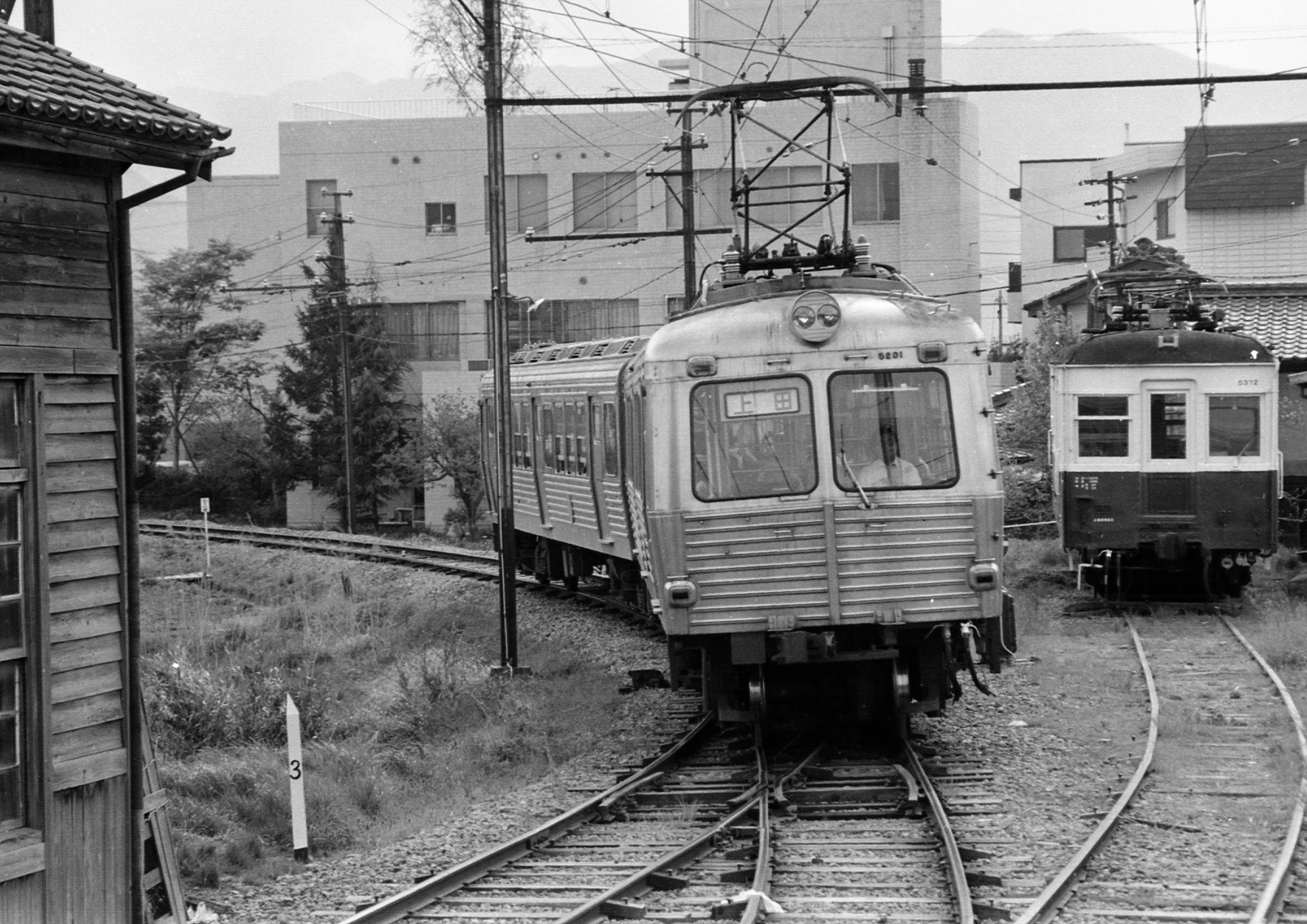 Ueda Kotsu 5201 approaching Uedahara